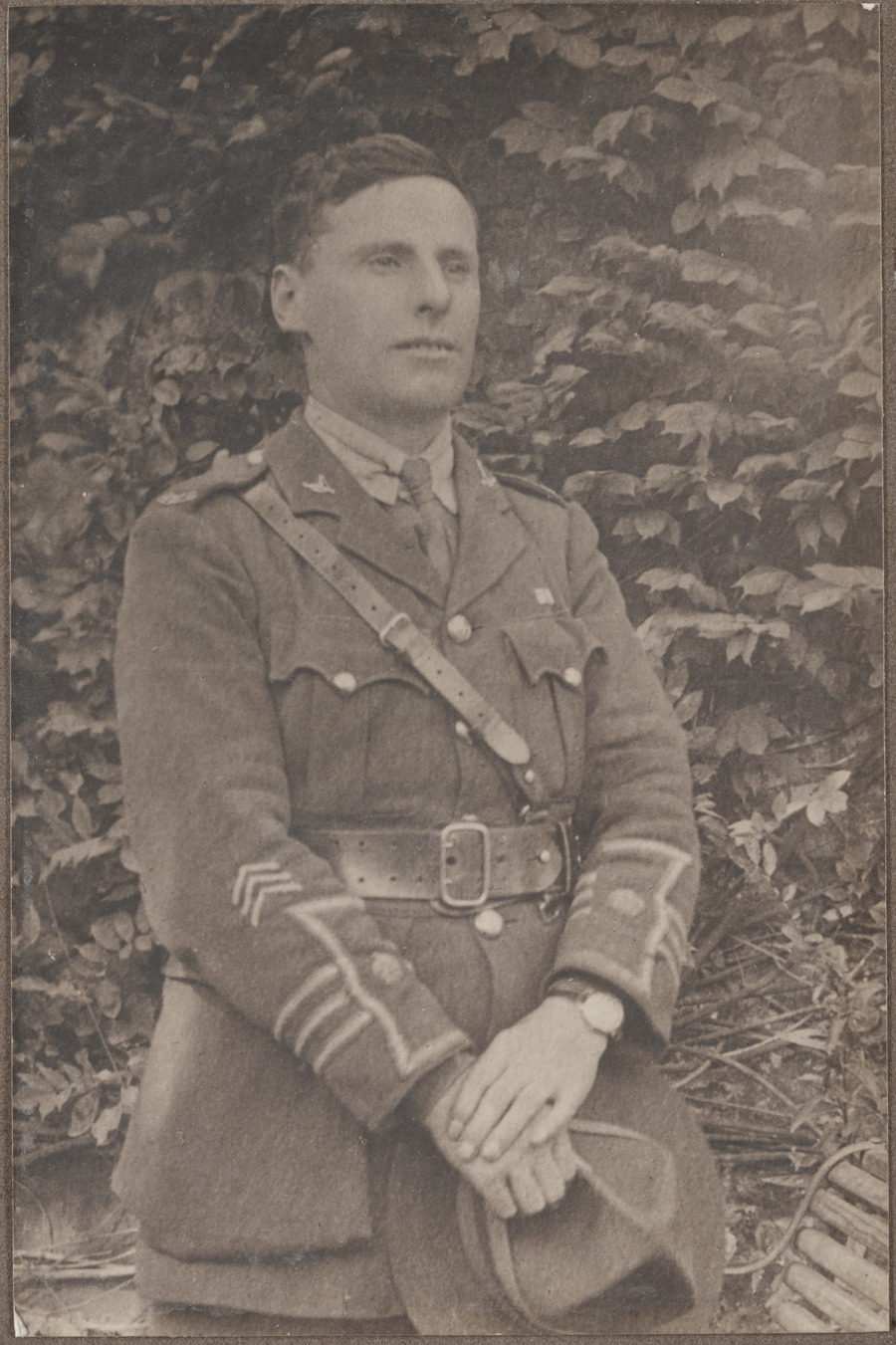 Photograph of Captain Septimus James Edgar Closey (1920), Great War medal recipient from New Zealand. Archives New Zealand Reference: AALZ 25044 3 / F1345 60 Part of a series of photographs obtained by the New Zealand National Museum provided by families of New Zealanders who had received a medal during the Great War.